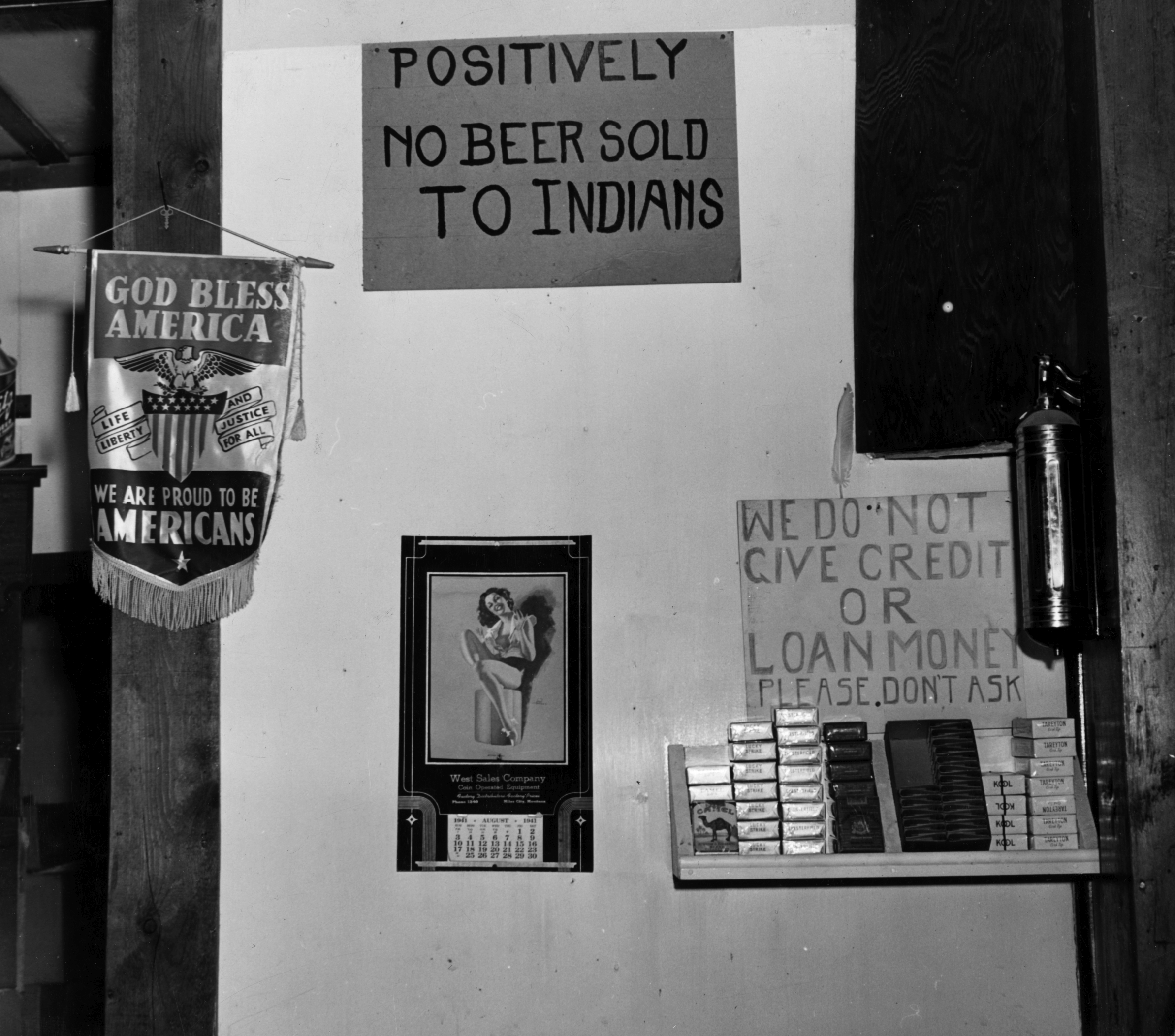 Signs over bar in Birney, Montana, 1941. Patriotic "God Bless America" banner, calendar with pin-up girl, display of cigarettes, and hand lettered signs reading "Positively no beer sold to Indians" and "We do not give Credit or loan money". Birney, Montana. August 1941. Marion Post Wolcott, photographer.